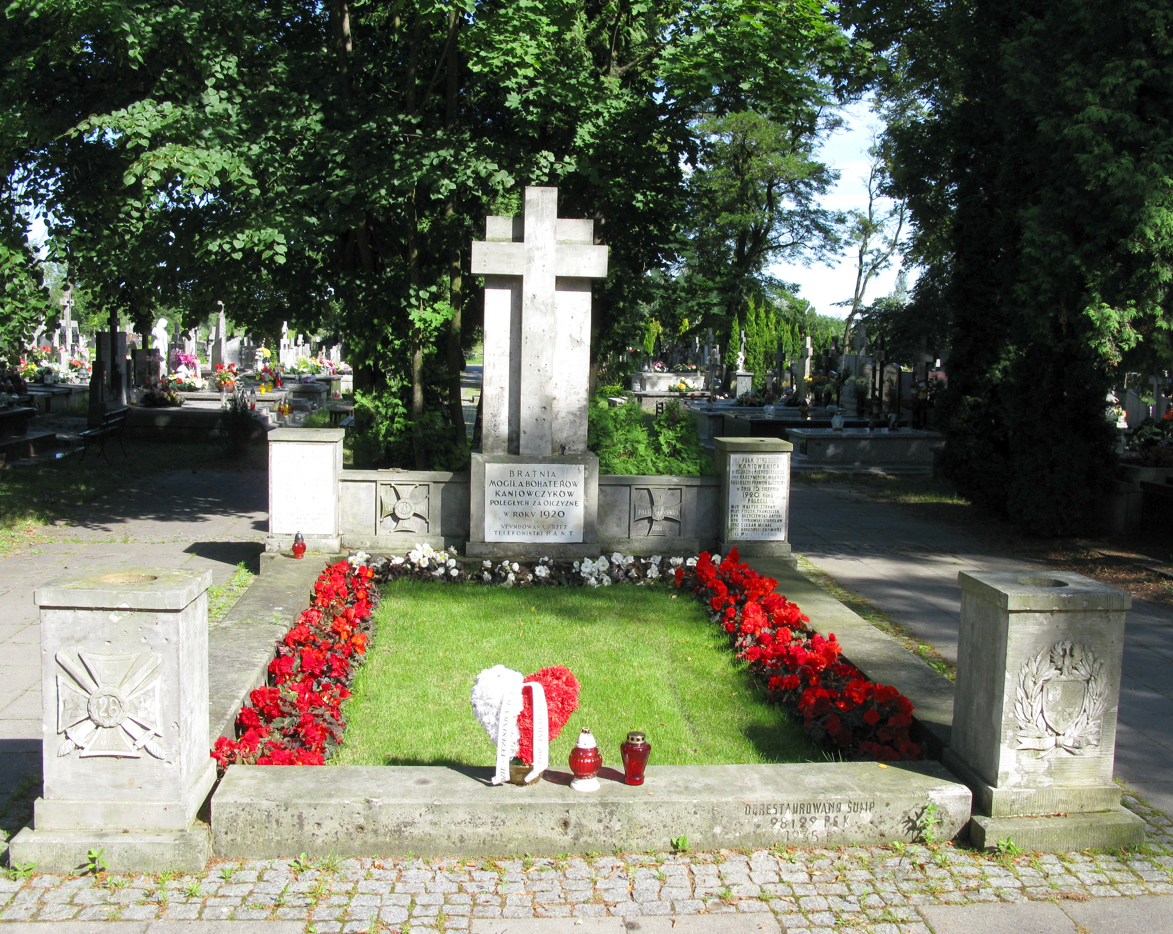 Fraternal grave of 29th Regiment of Riflemen of Kaniów in 1920